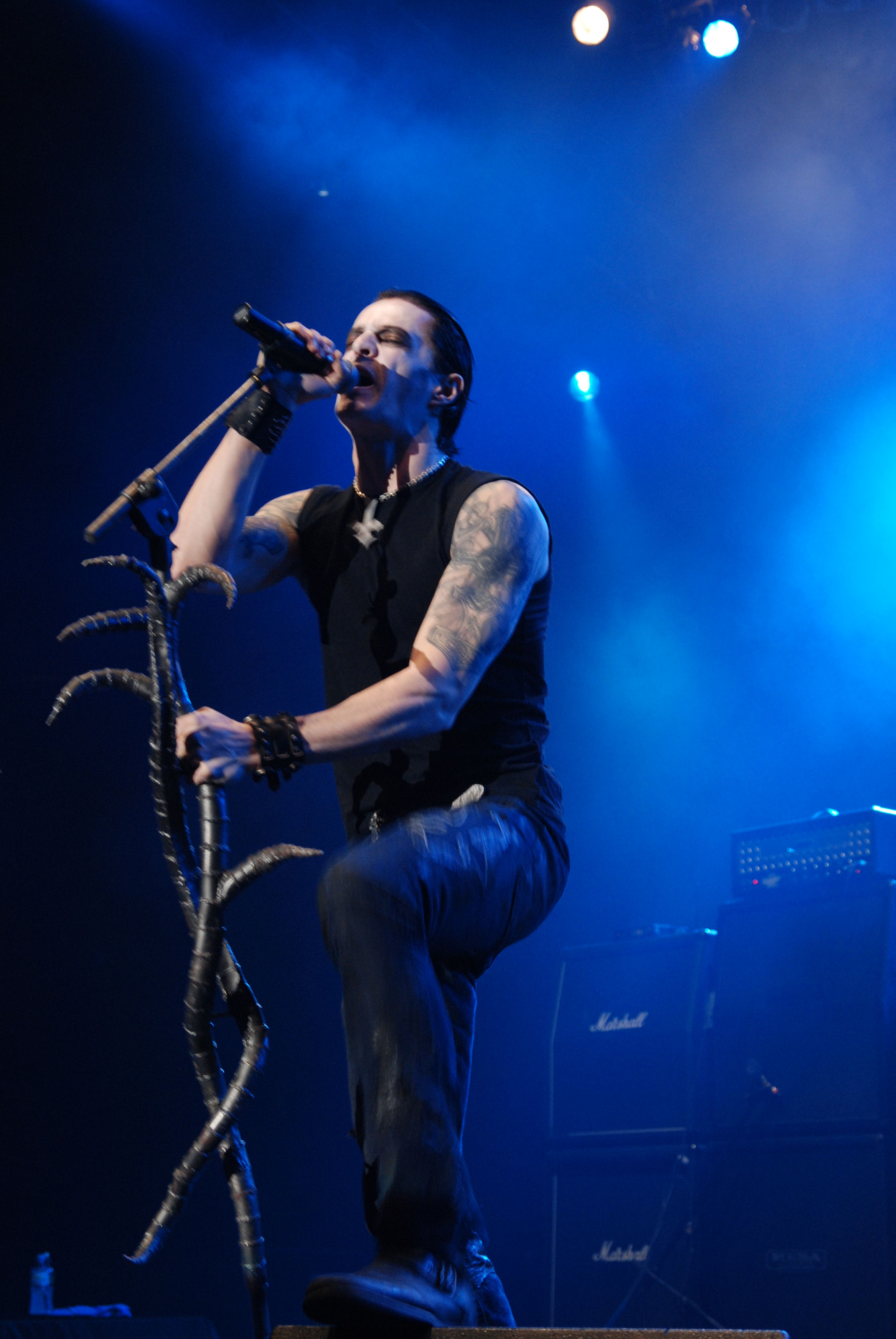 Sigurd Wongraven "Satyr" Satyricon during Metalmania 2008 festival